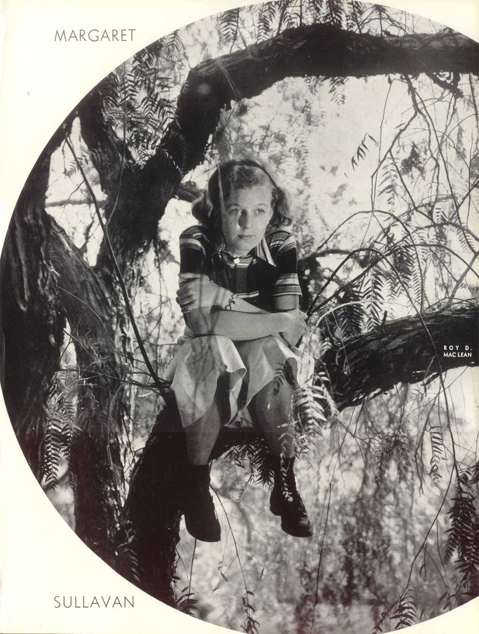 Publicity photo of Margaret Sullavan for Argentinean Magazine. (Printed in USA)